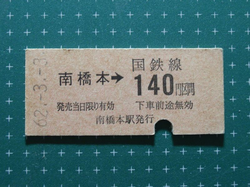 Japanese National Railways 140 Yen ticket from Minami-Hashimoto Station